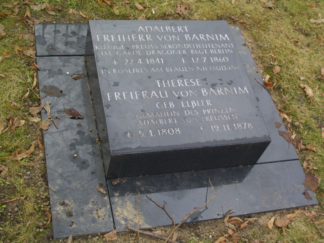 Grab von Adalbert von Barnim und Therese von Barnim